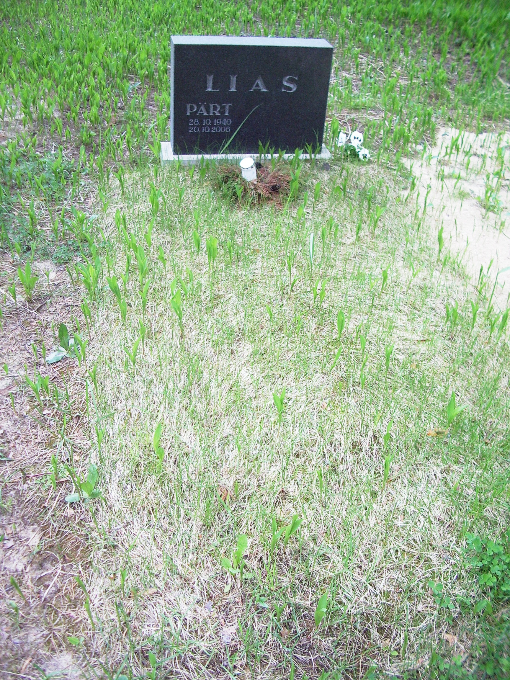 A tomb of Pärt Lias